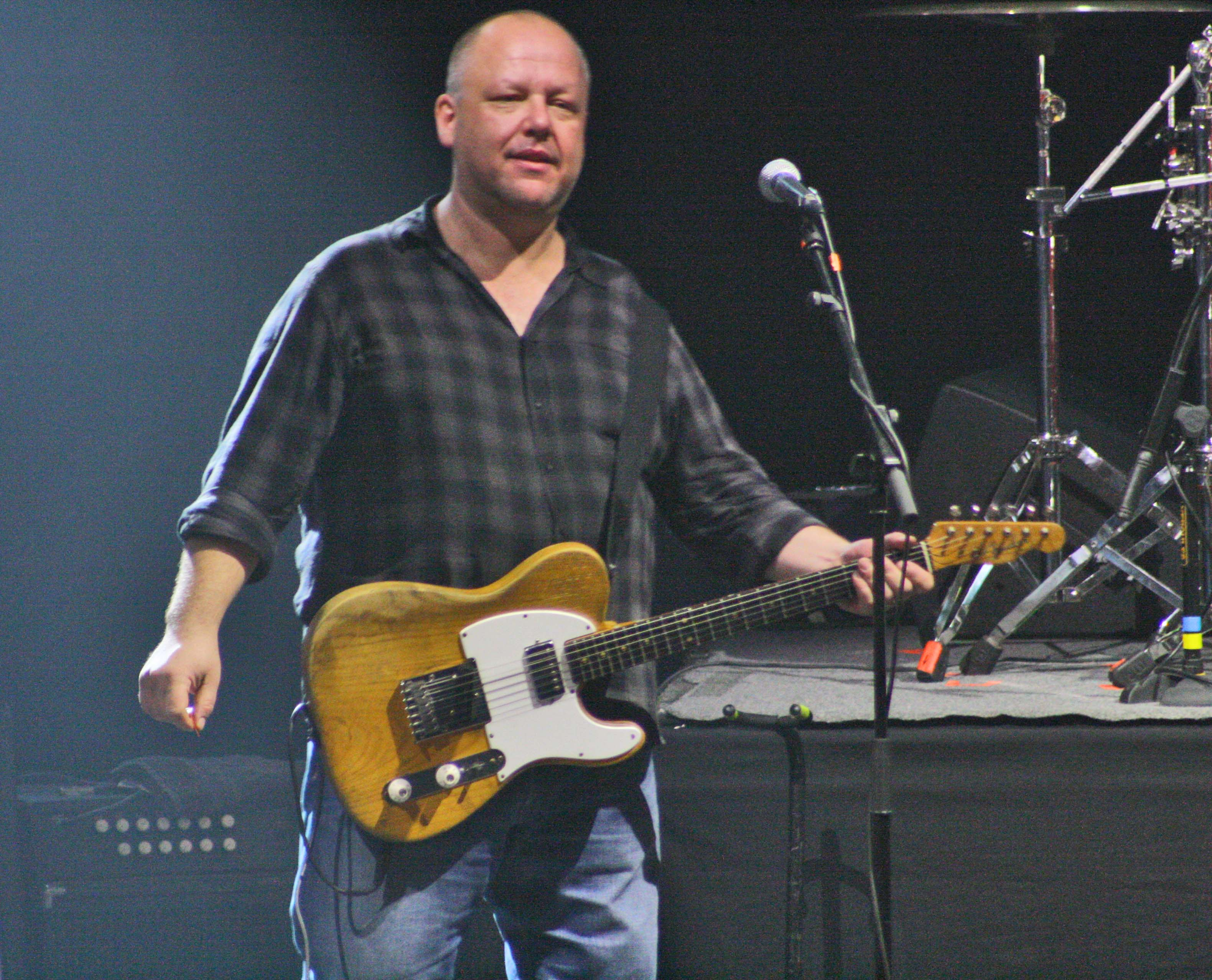 Black Francis from Pixies at Teatro La Cúpula.